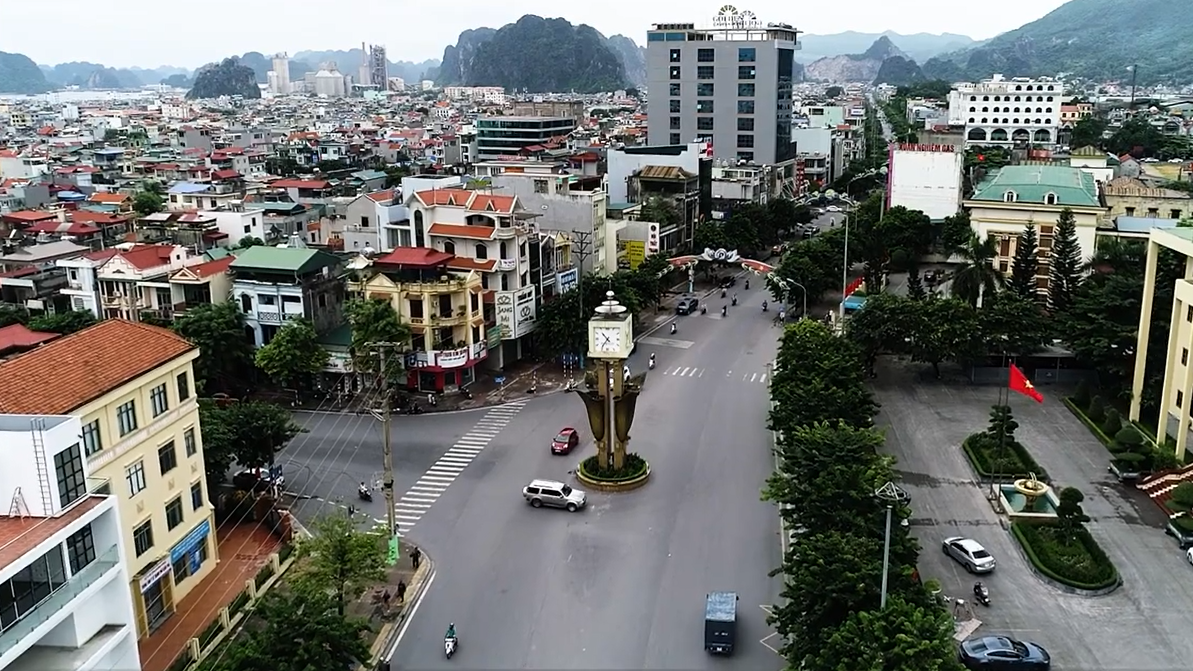 Center of Campha